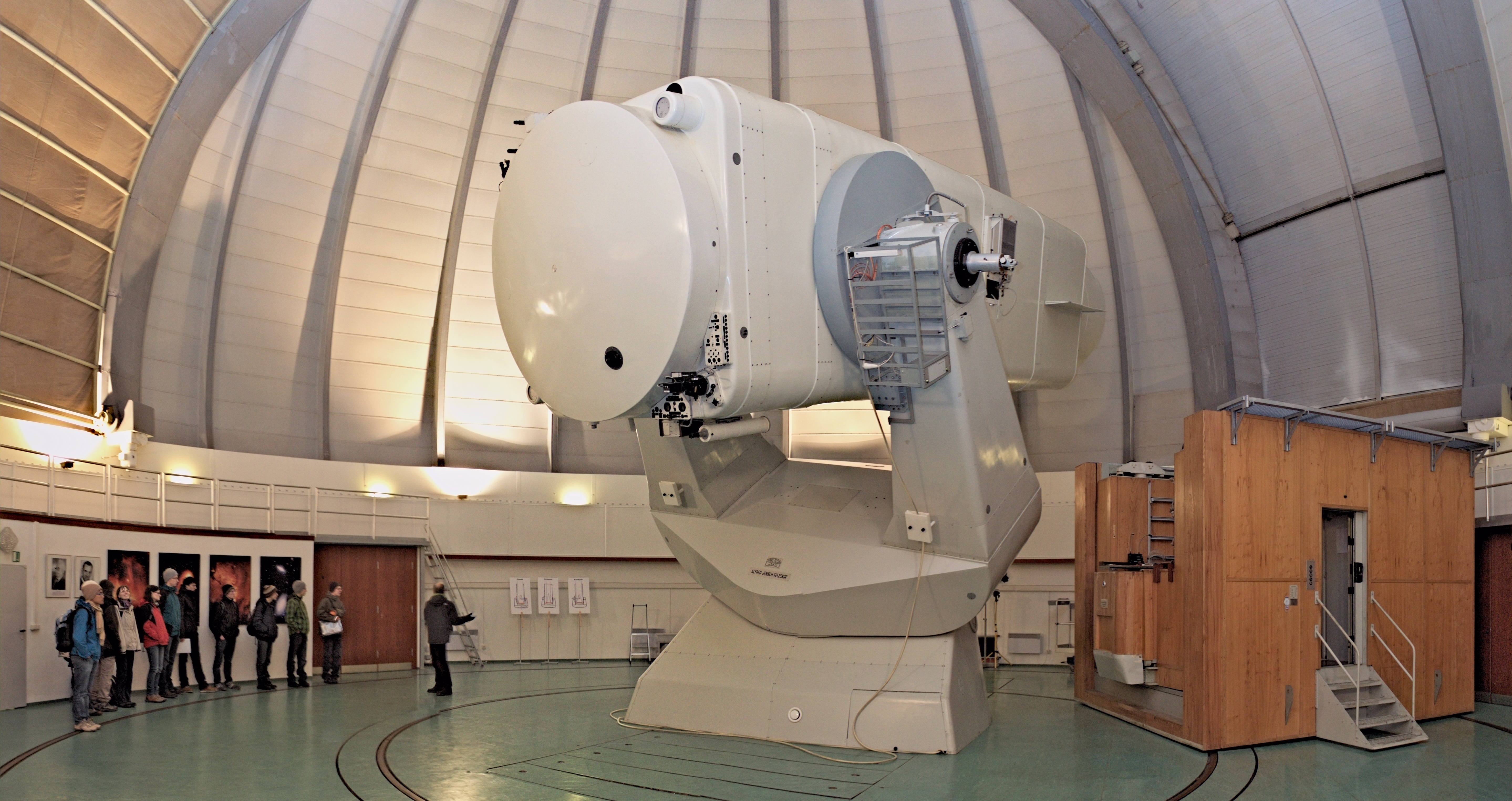 Alfred-Jensch-Teleskop in the Karl Schwarzschild Observatory in Tautenburg, Germany